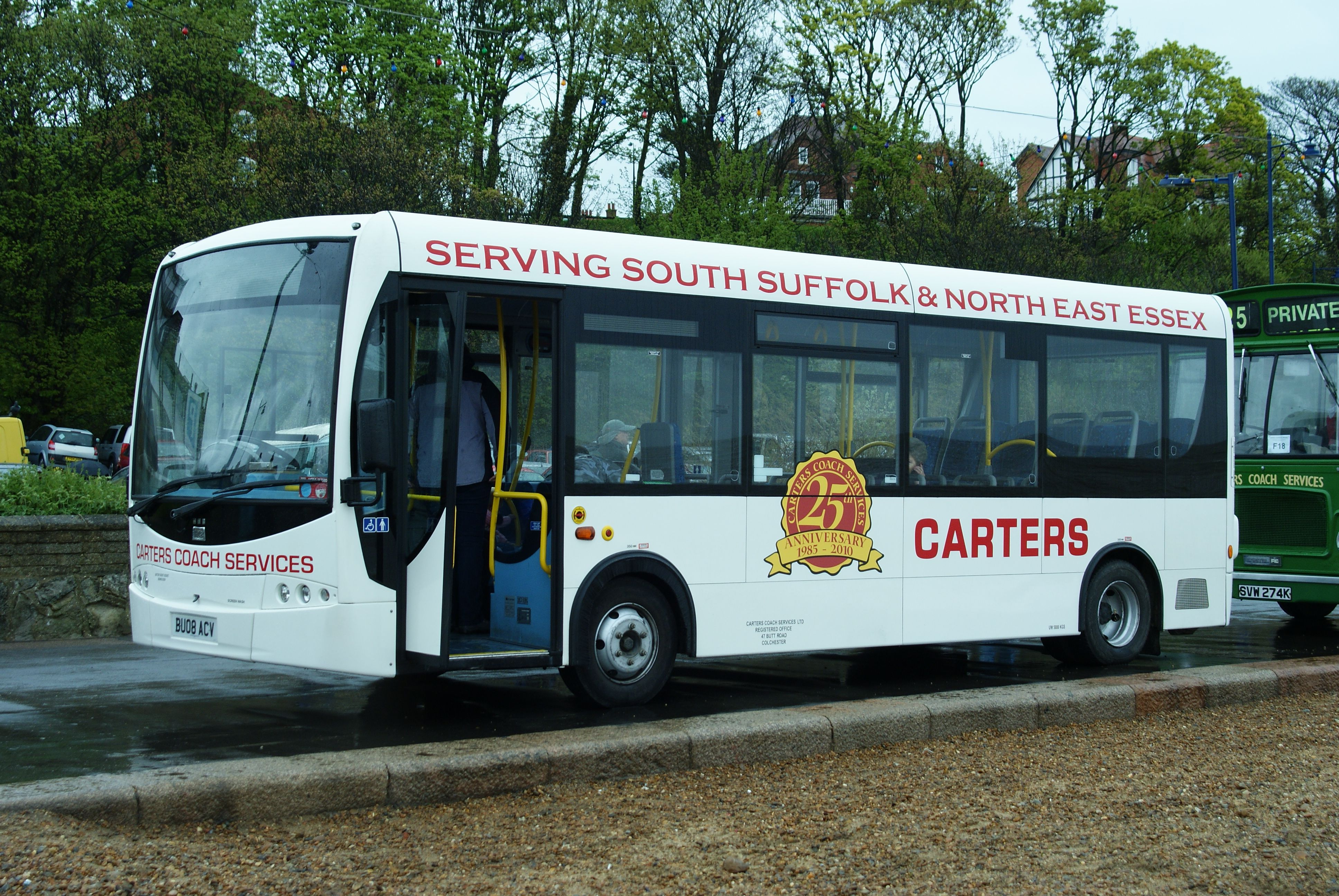 BU08ACV 020510 CPS